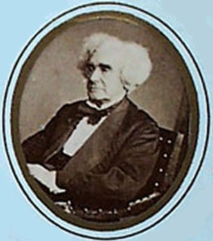 Photograph of Samuel Carter Hall